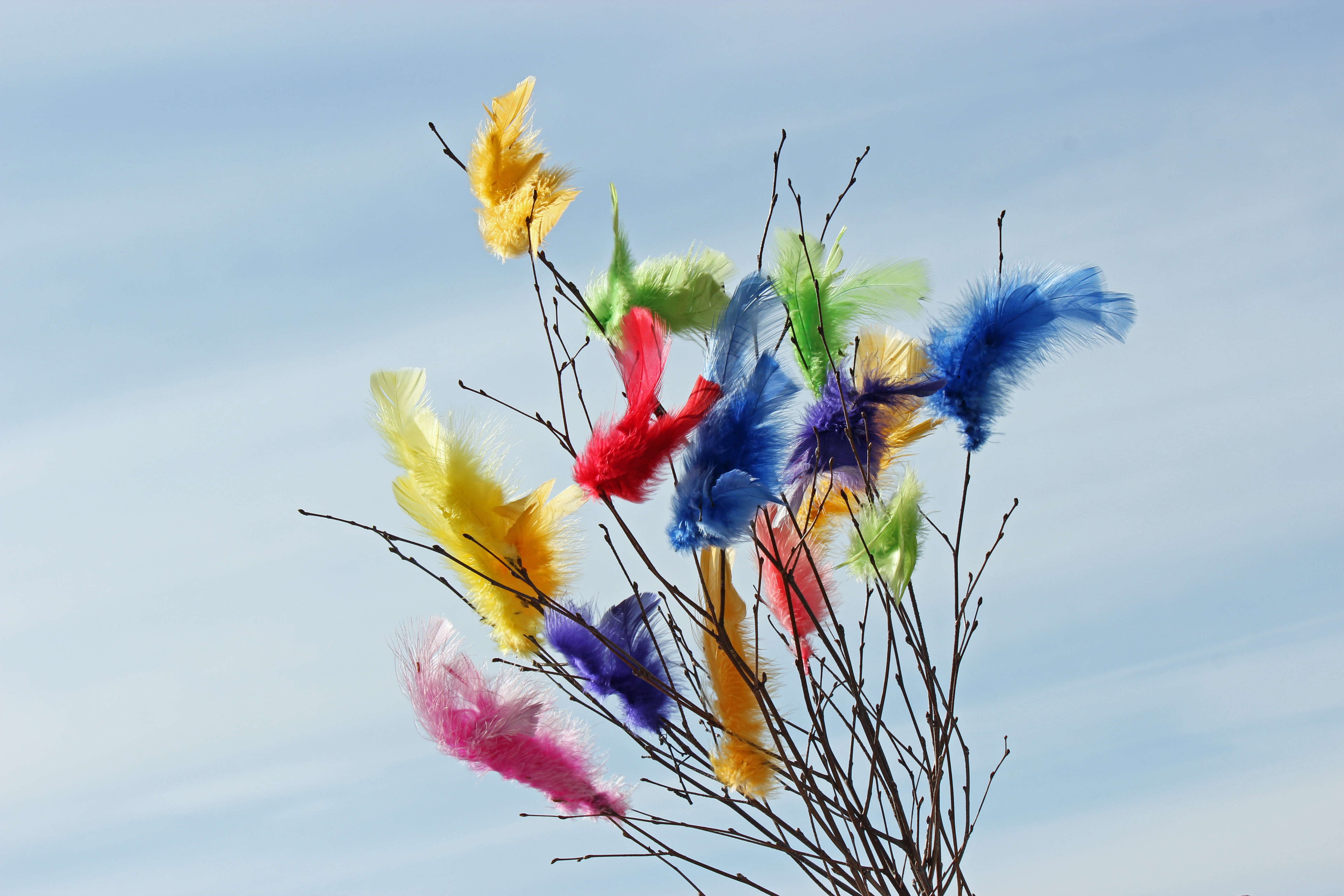 Easter decoration.